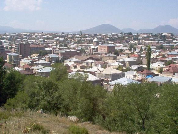 General view of Gavar